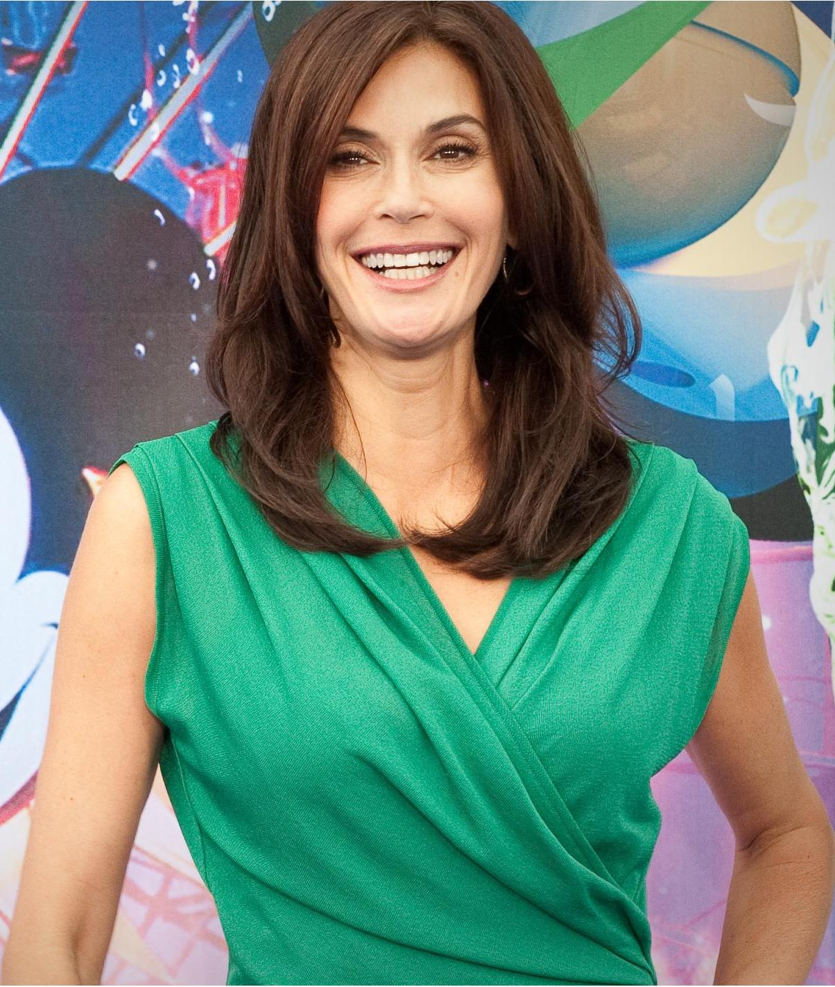 Teri Hatcher at the World of Color premiere in Disney California Adventure Park in June 2010